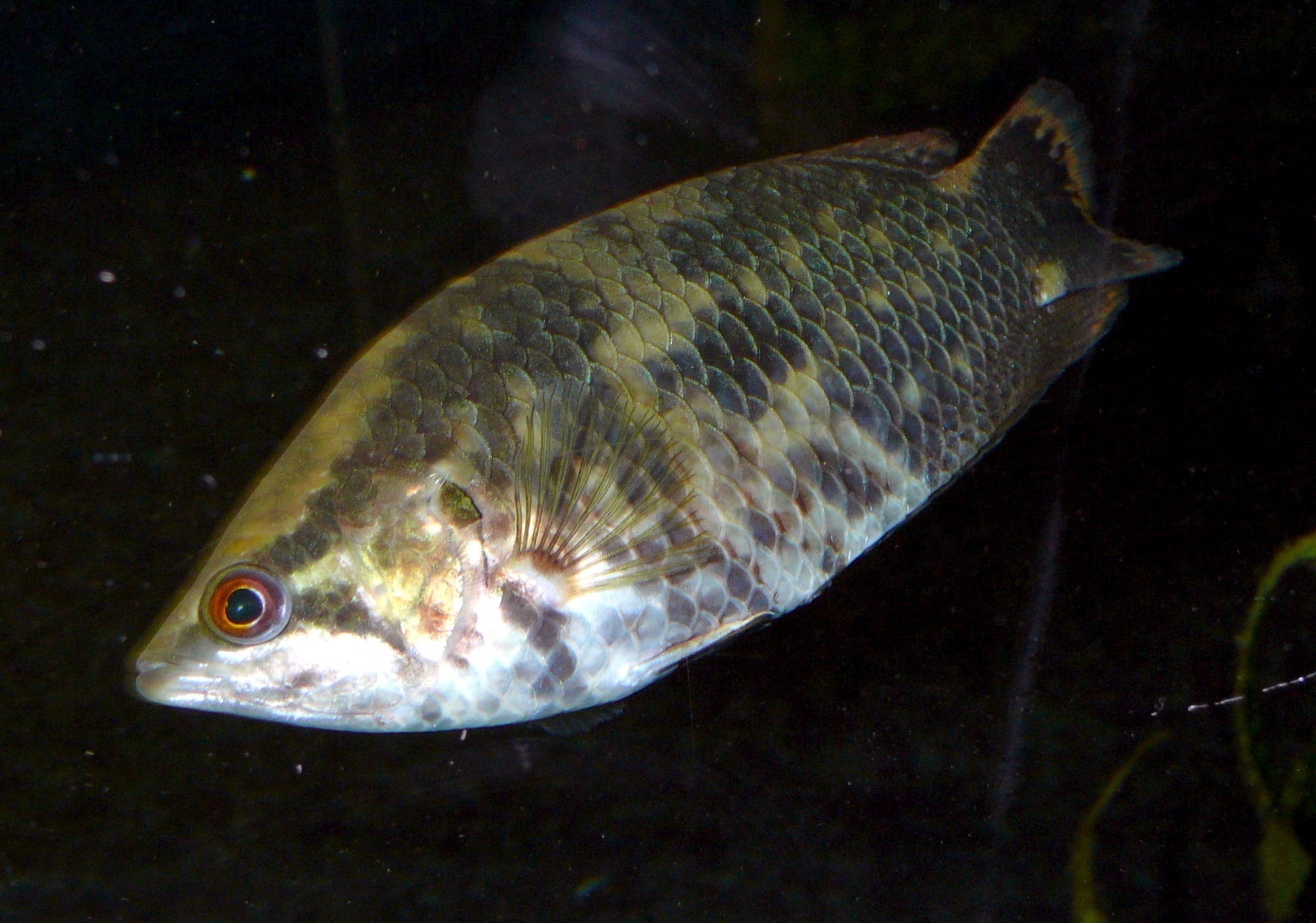 Ctenopoma acutirostre or Ctenopoma oxyrhynchum.